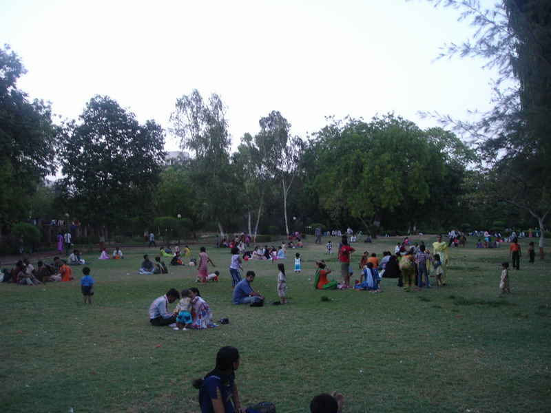 clicked by me - Srikeit(talk ¦ ✉) 11:00, 15 May 2006 (UTC)